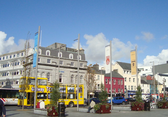 Eyre Square: Galway City The flags display coats of arms of County Galway families.